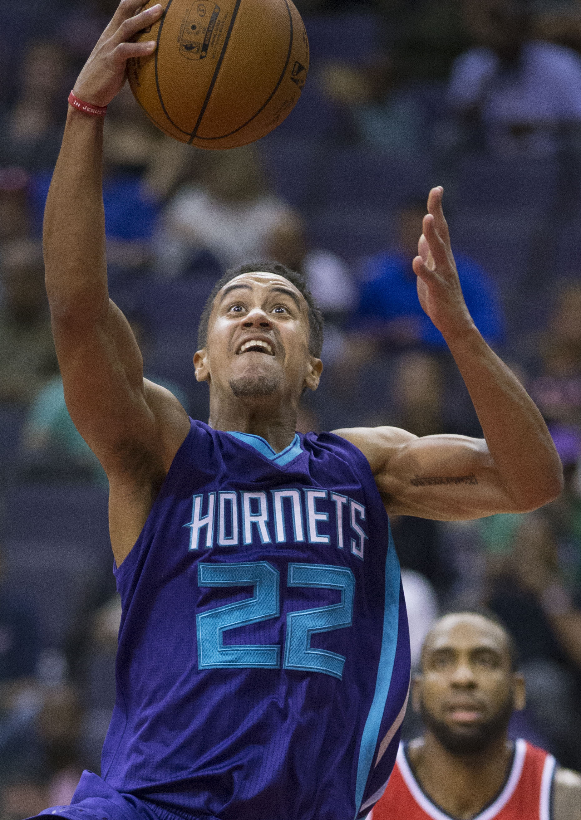 Hornets at Wizards 10/17/14